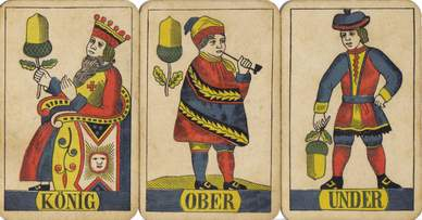 Early "single image" form of the Swiss German playing card deck, the three image cards of the acorn suit: Eicheln-König, Eicheln-Ober, Eicheln-Under